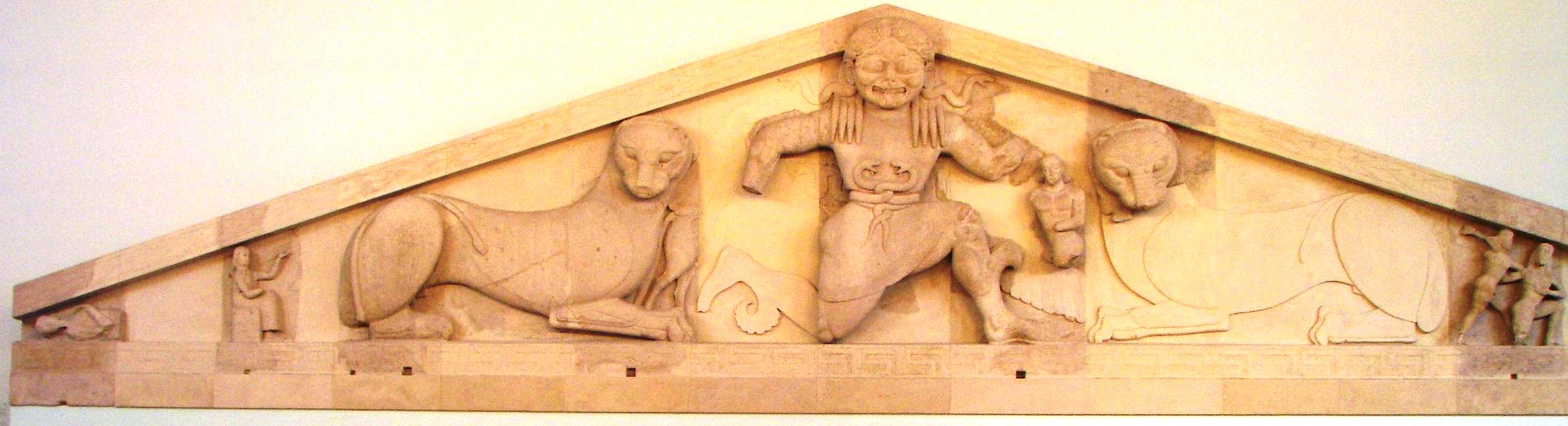 West pediment from the Temple of Artemis in Corfu